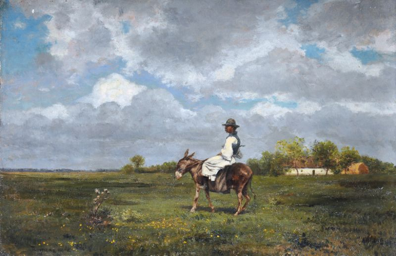 Towards home